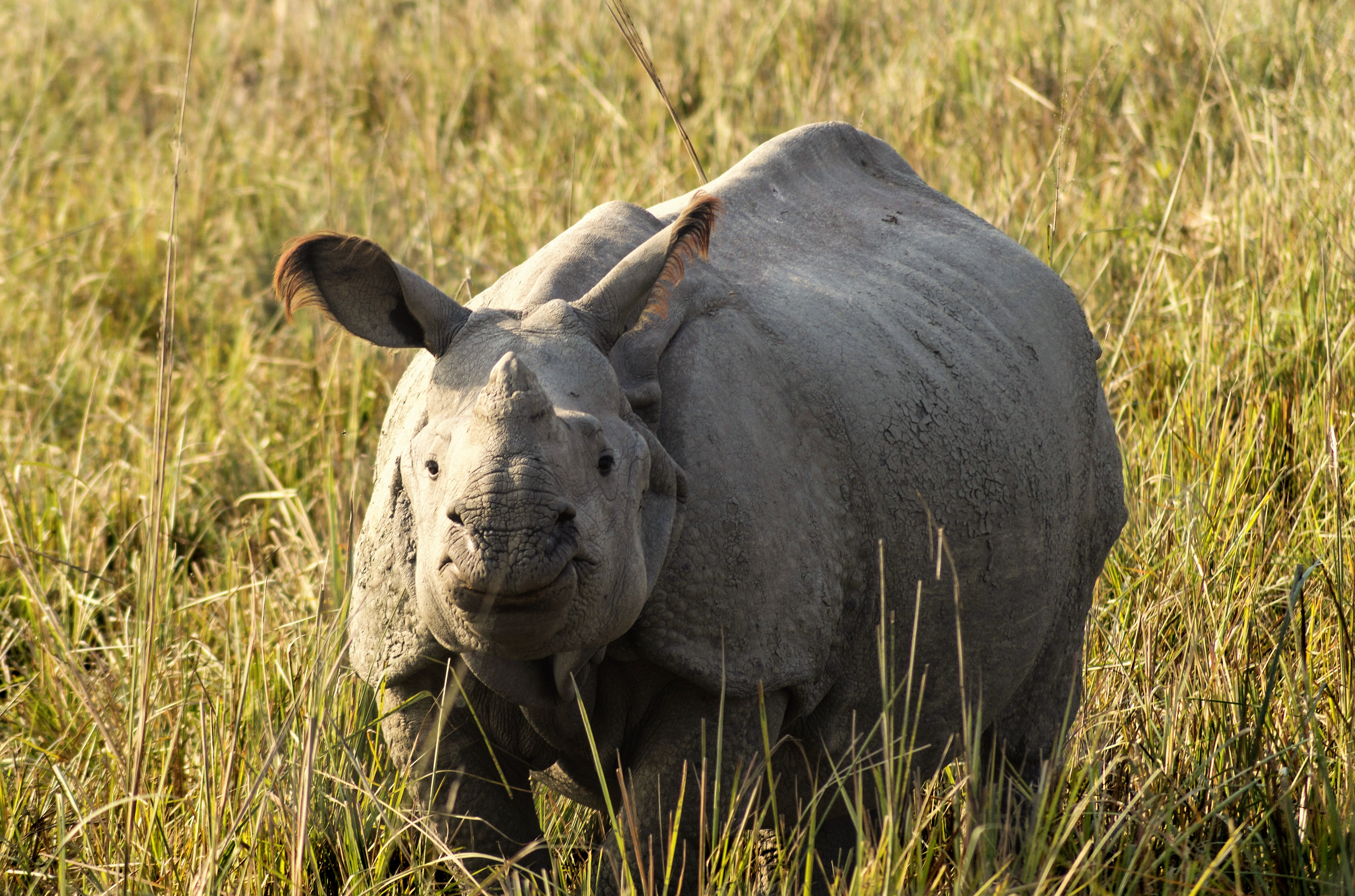 Greater One-horned rhinoceros in Pobitora